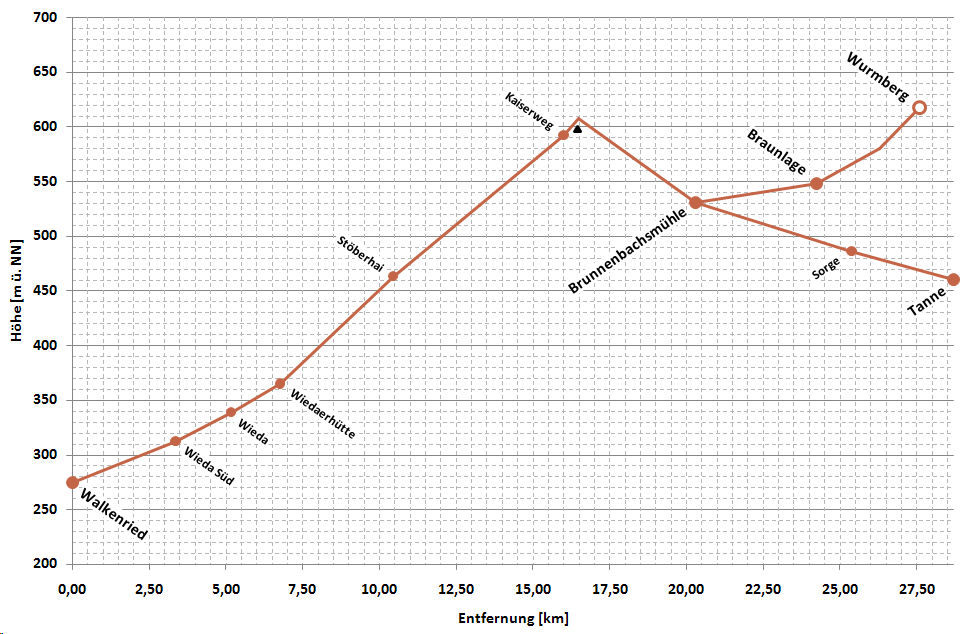 simplified altitude-profile of railway track Walkenried—Braunlage—Tanne